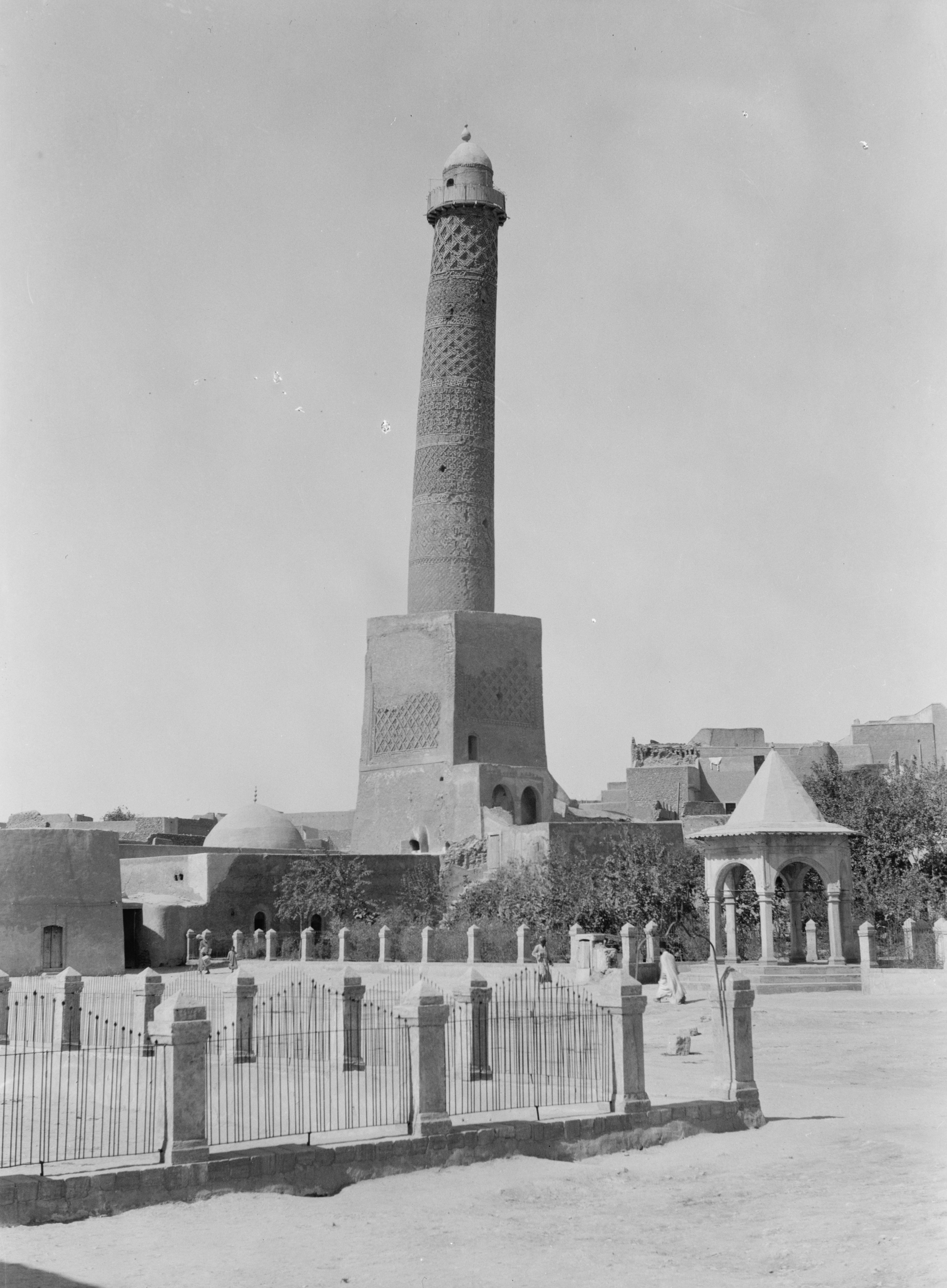 Iraq. Mosul. The leaning tower showing detail of arabesque decoration.